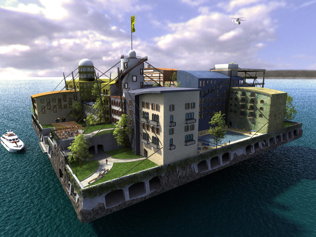 (Andras Gyorfi, TSI, this image is CCA)